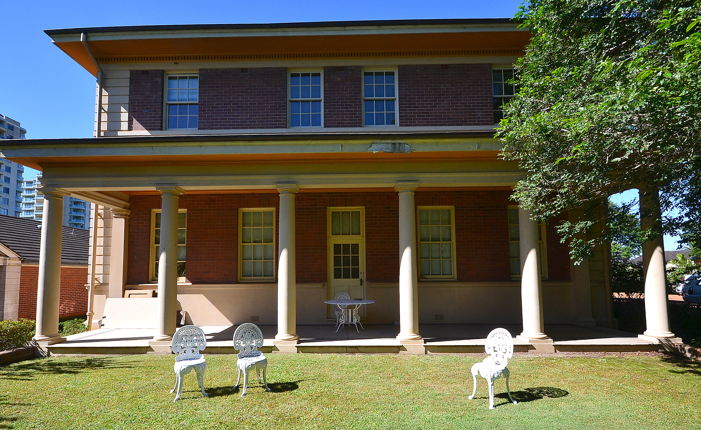 W.D. and H.O. Wills offices, Kensington, Sydney